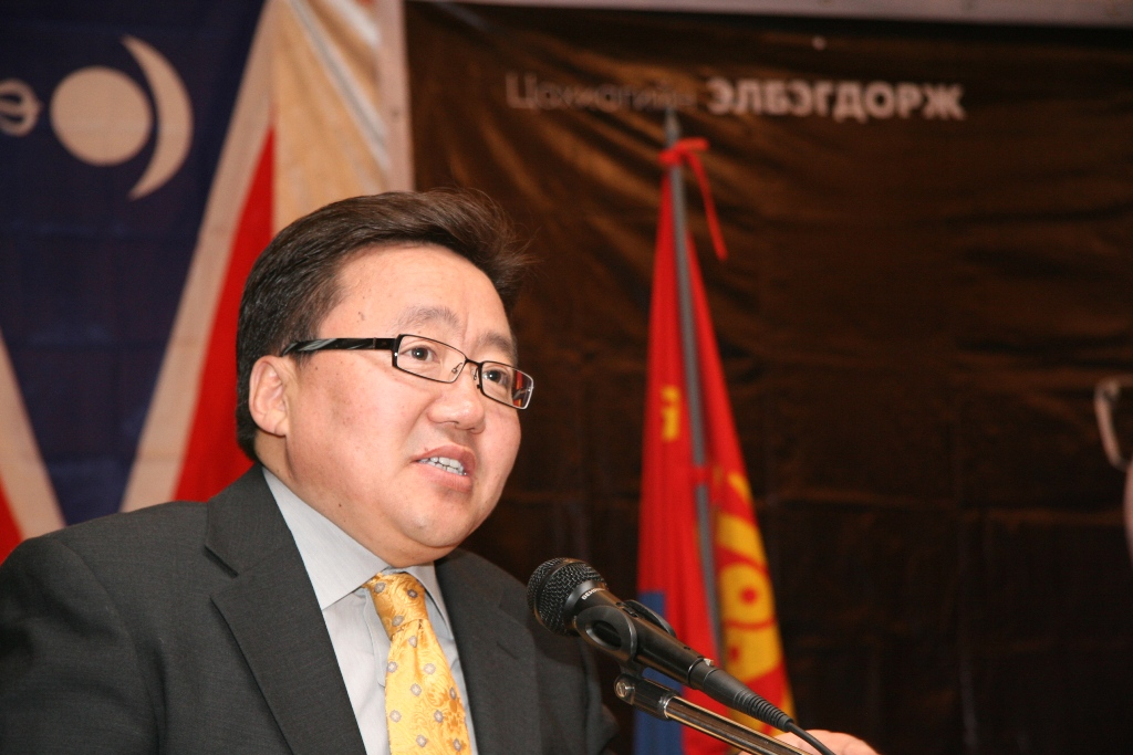 Elbegdorj Tsakhia's photo. Монгол: Цахиагийн Элбэгдоржийн фото.